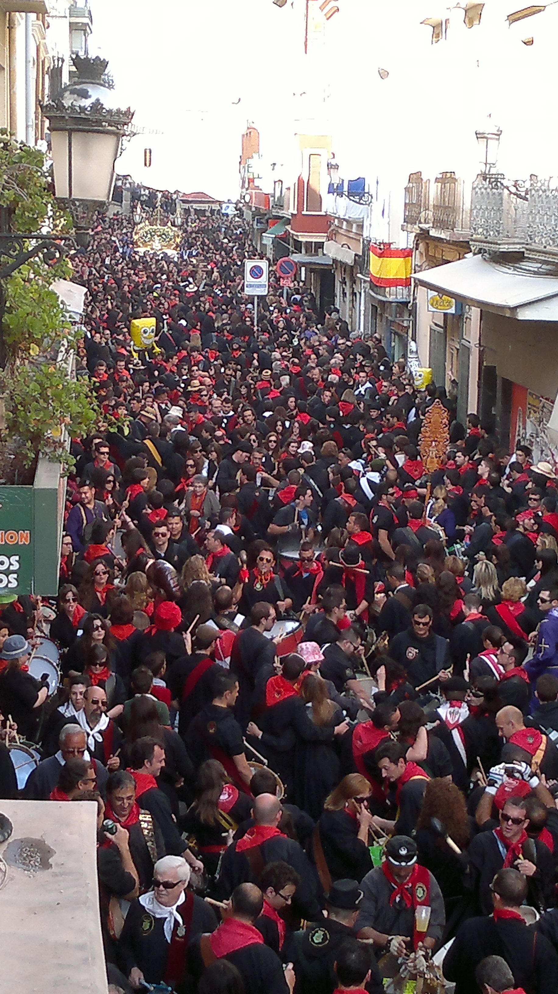 tambores y tunicas